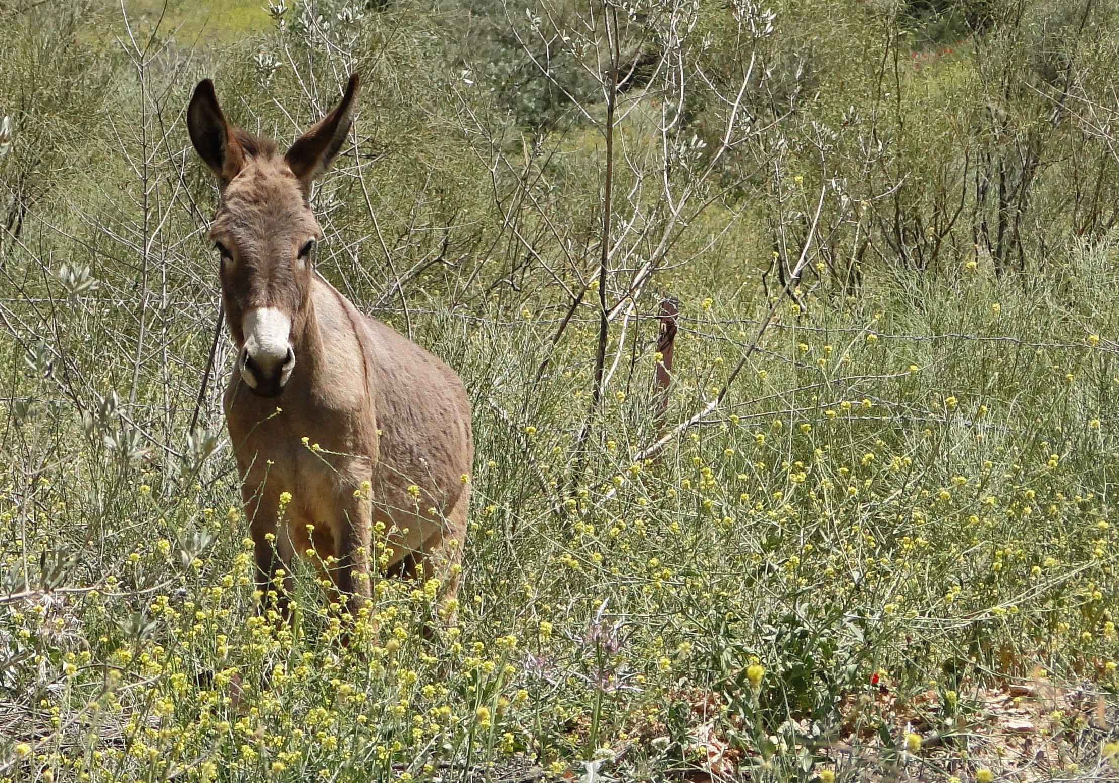 A donkey in Dana Biosphere Reserve, Jordan